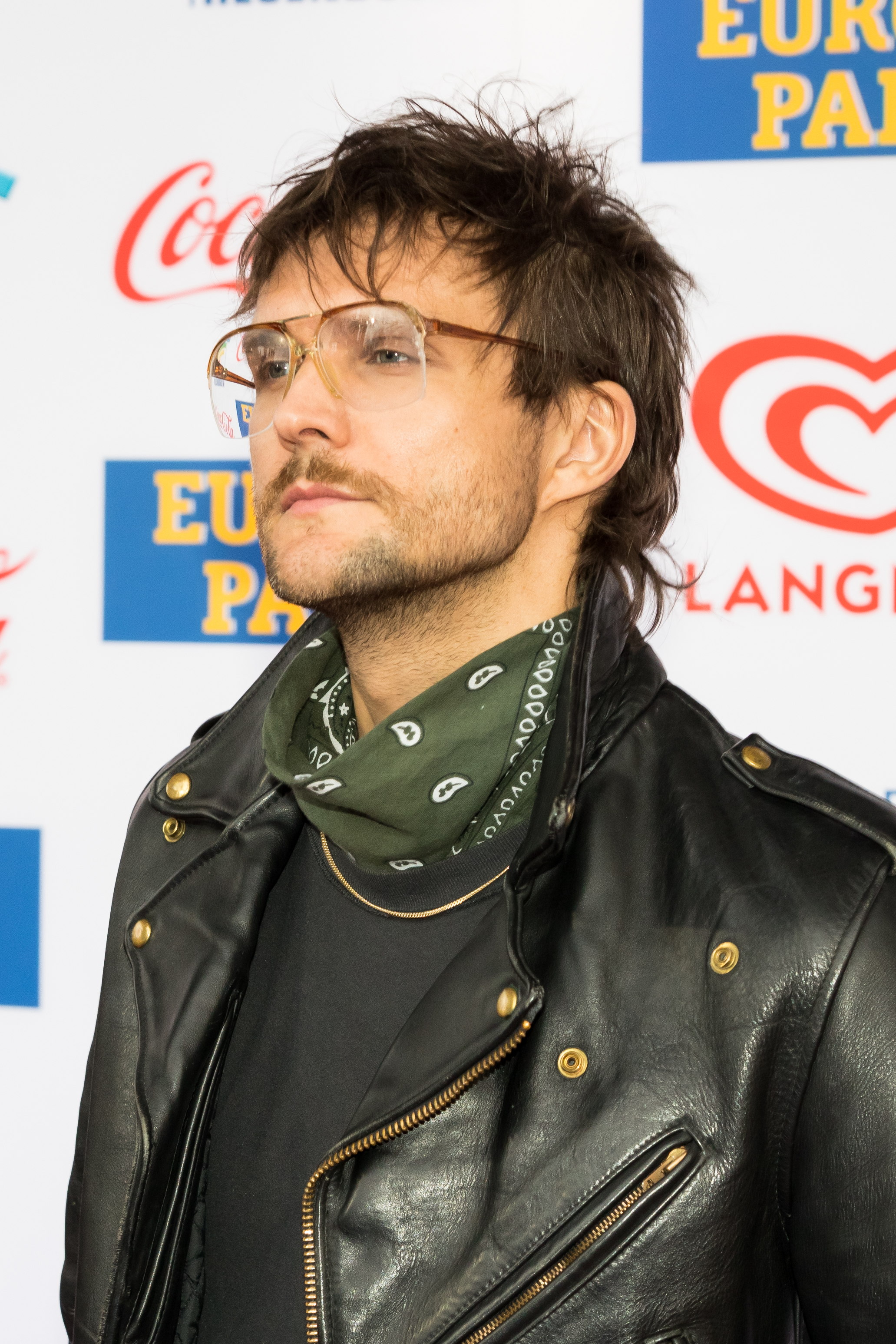 The Night Game during Radio Regenbogen Award 2019 at Europapark, Rust, Baden-Württemberg, Germany on 2019-04-12, Photo: Sven Mandel